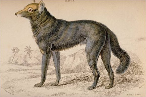 Engraving of a dusky wolf (Lupus nubilus)